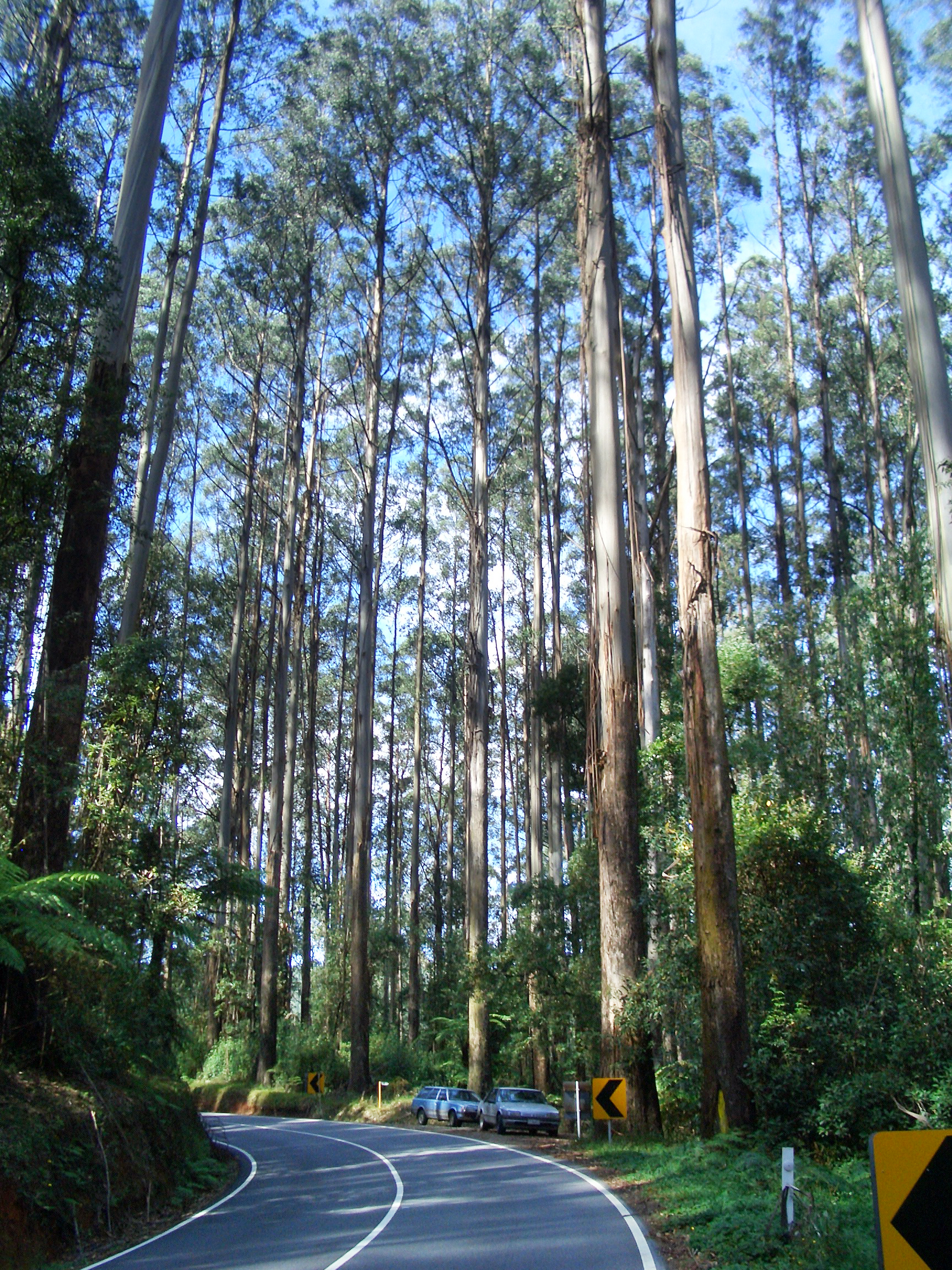 Giant mountain ash trees (Eucalyptus regnans) dwarf cars on the Blackspur Range, Victoria, Australia. The largest trees germinated together after devastating bushfires killed the parent forest about 80 years earlier.